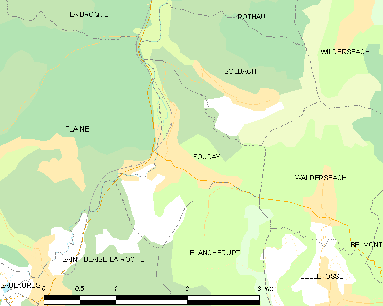 Map of French municipality